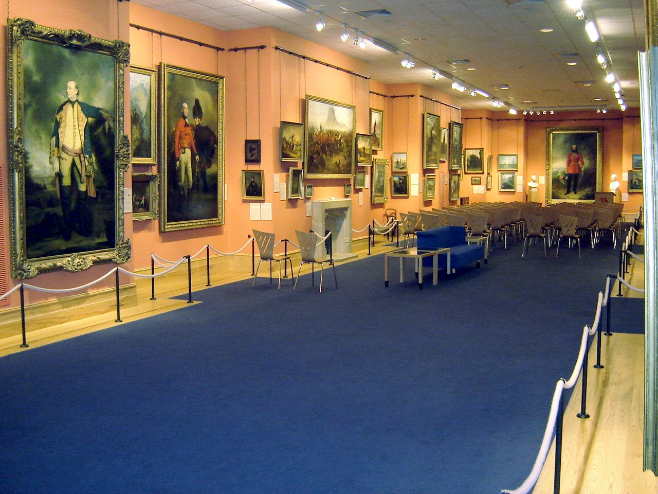 internal photographs of the national army museum